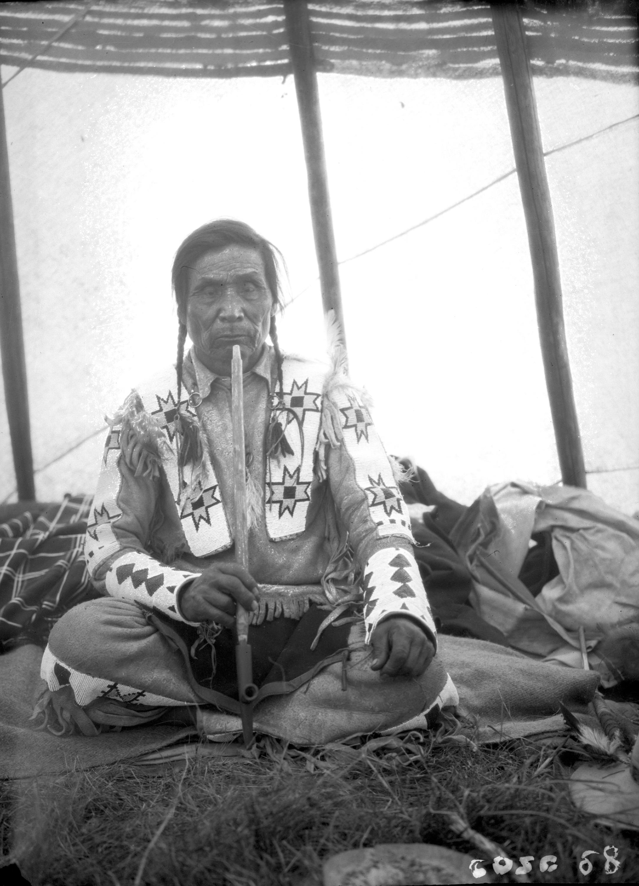 From the Paul Coze fonds, PR2006.0508/1.